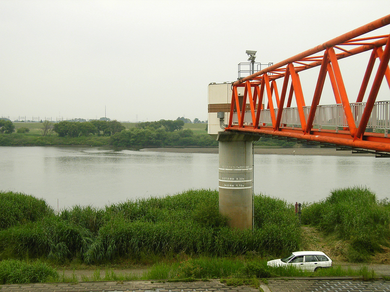 Kurihashi Water Level Observatory of the Tone River. Kurihashi, Saitama prefecture, Japan.